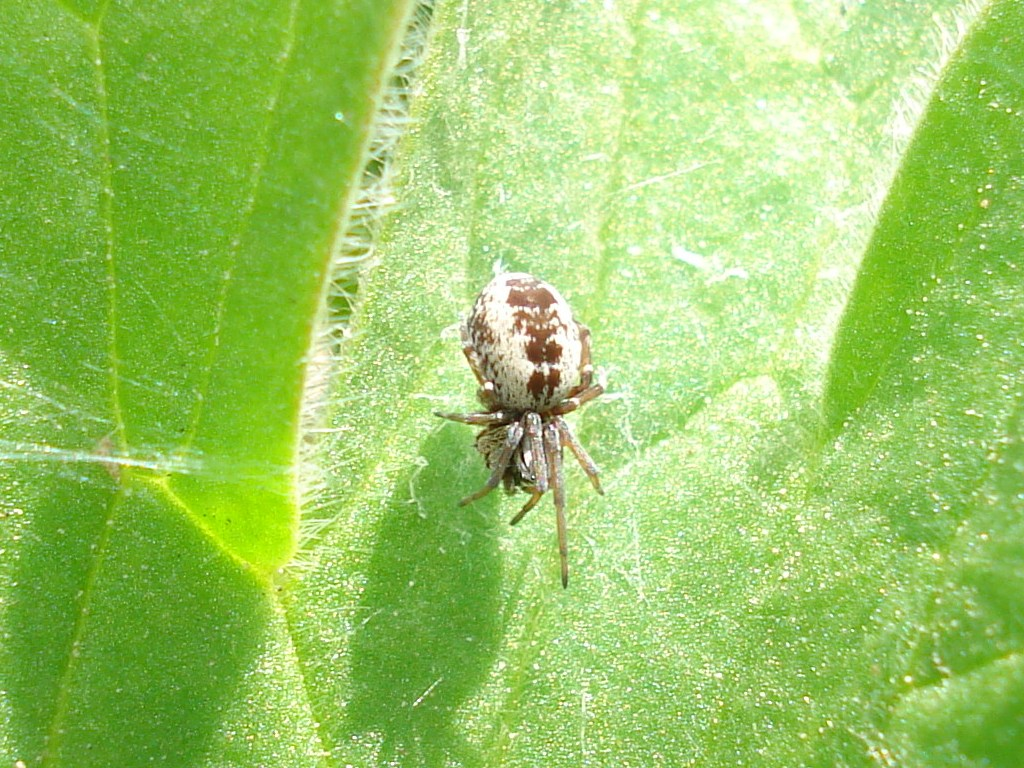 Dictyna civica